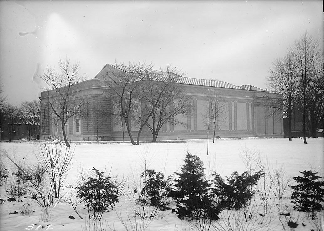 The Art Gallery of Ontario, as viewed from the south, in 1922. Toronto, Canada.